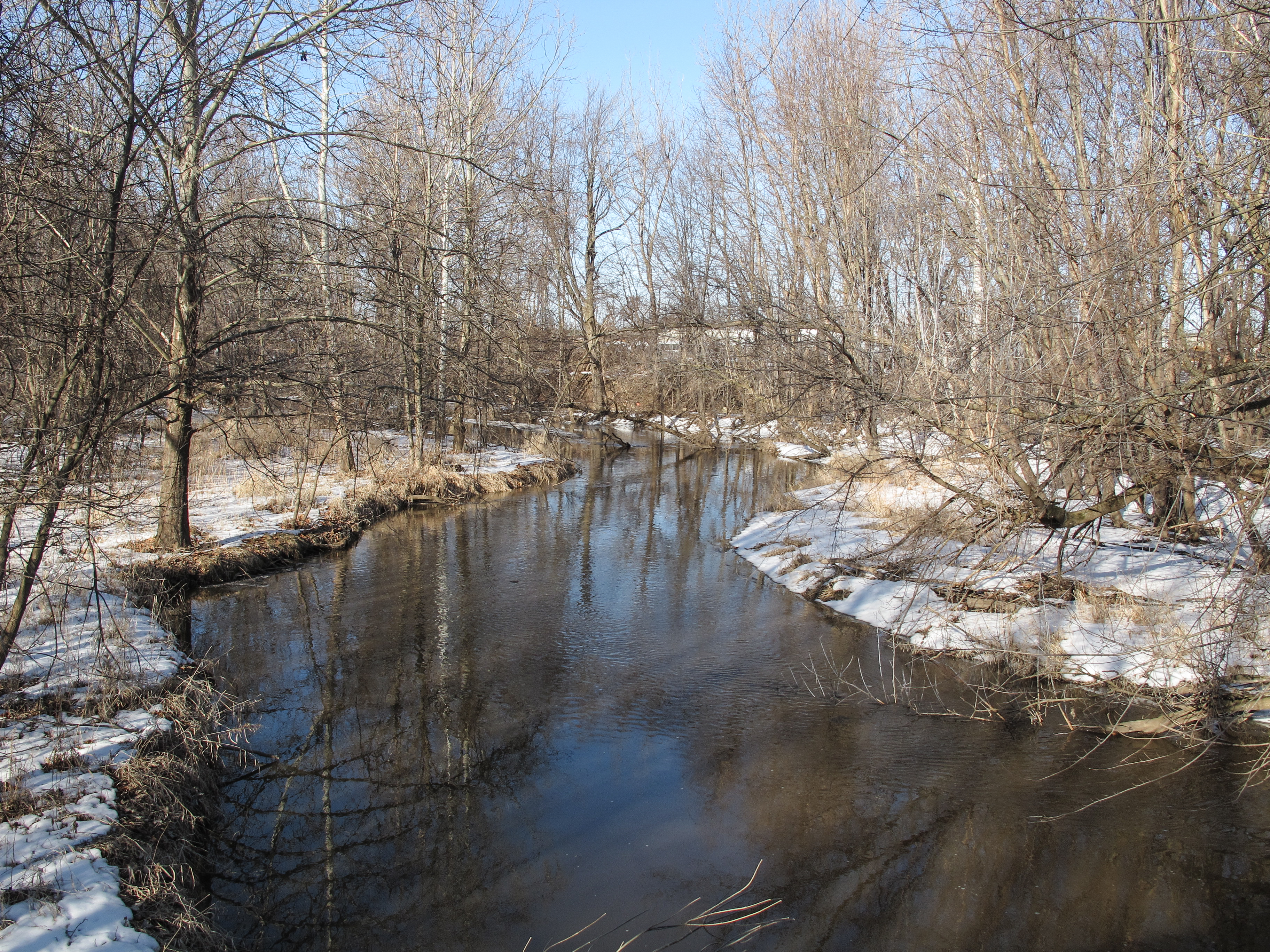 Sycamore Creek as viewed from a pedestrian/bicycle bridge on the Lansing River Trail in Lansing, Michigan